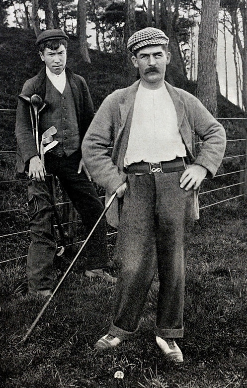 Sport, Golf, pic: circa 1885, Scottish golfer Bernard 'Ben' Sayers, (1856-1924) and caddie Sandy Smith, Sayers was a well respected golfer and made golf balls from a machine handed 'down' to him, He was joint 2nd in the 1888 British Open Golf Championship and later gave golf tuition to the Royal Family